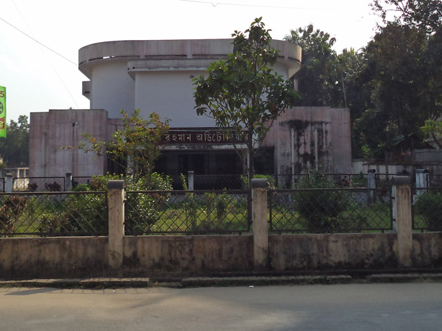 মৌলভীবাজার সরকারী উচ্চ বিদ্যালযয়ের দ্বিতল বিশিষ্ট অডিটোরিয়াম।